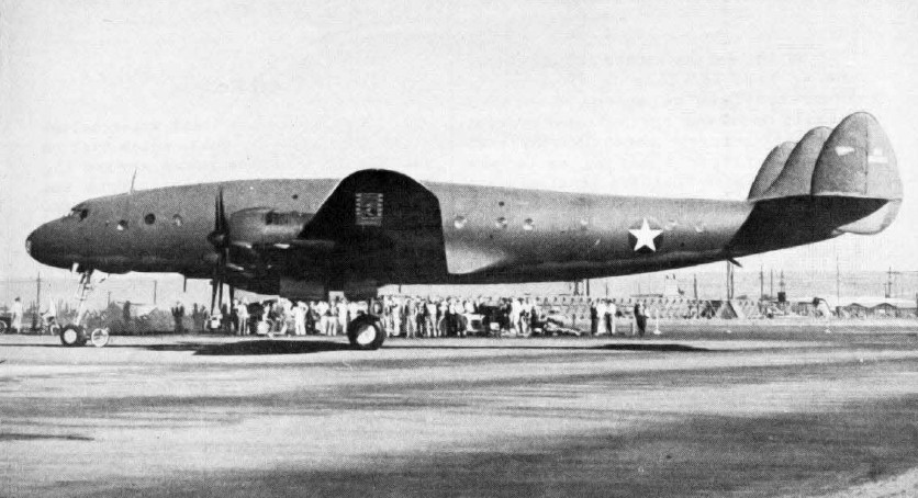 The prototype of the Lockheed L.049 Constellation (c/n 1961) on 9 January 1943. It first flew on 9 January 1943 with the civil registration "NX25600" and was transferred to the USAAF as the C-69 (s/n) 43-10309 on 28 July 1943.